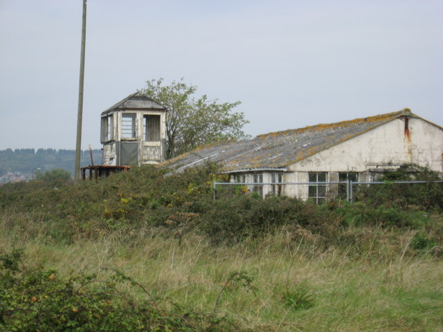 Control Tower Weston Airfield